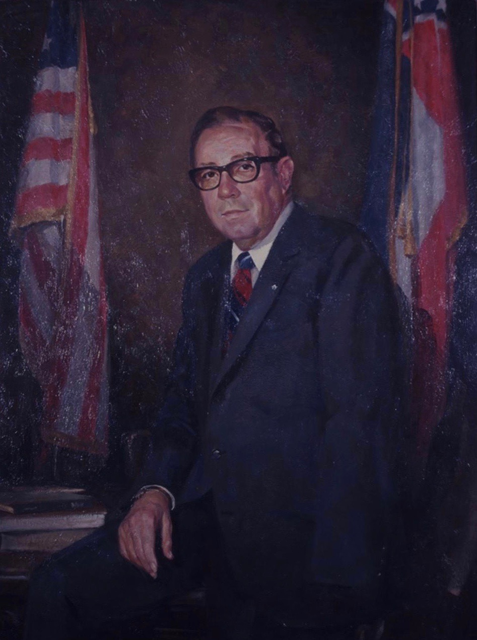 Collection: Governors Portraits photograph collection Call number: PI/1989.0008 System ID: 98809. Link to the catalog Governor John Bell Williams, Jan. 16, 1968 to Jan. 18, 1972. Please see our profile page for information on ordering. Scanned as tiff in 2008/05/15 by MDAH. Credit: Courtesy of the Mississippi Department of Archives and History